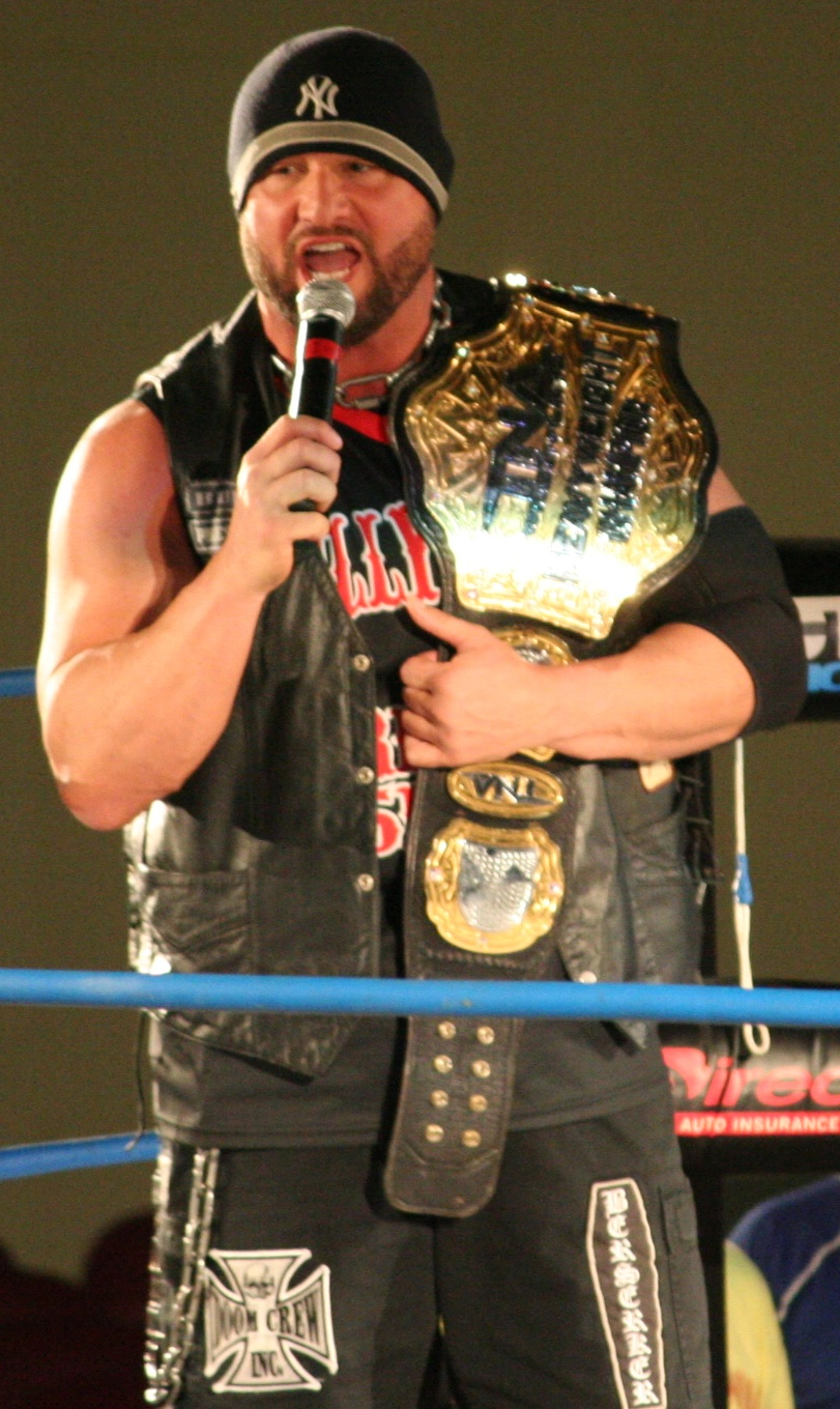 An image of professional wrestler Bully Ray.